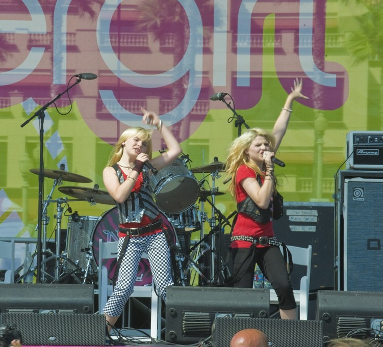 The Clique Girlz performing live.